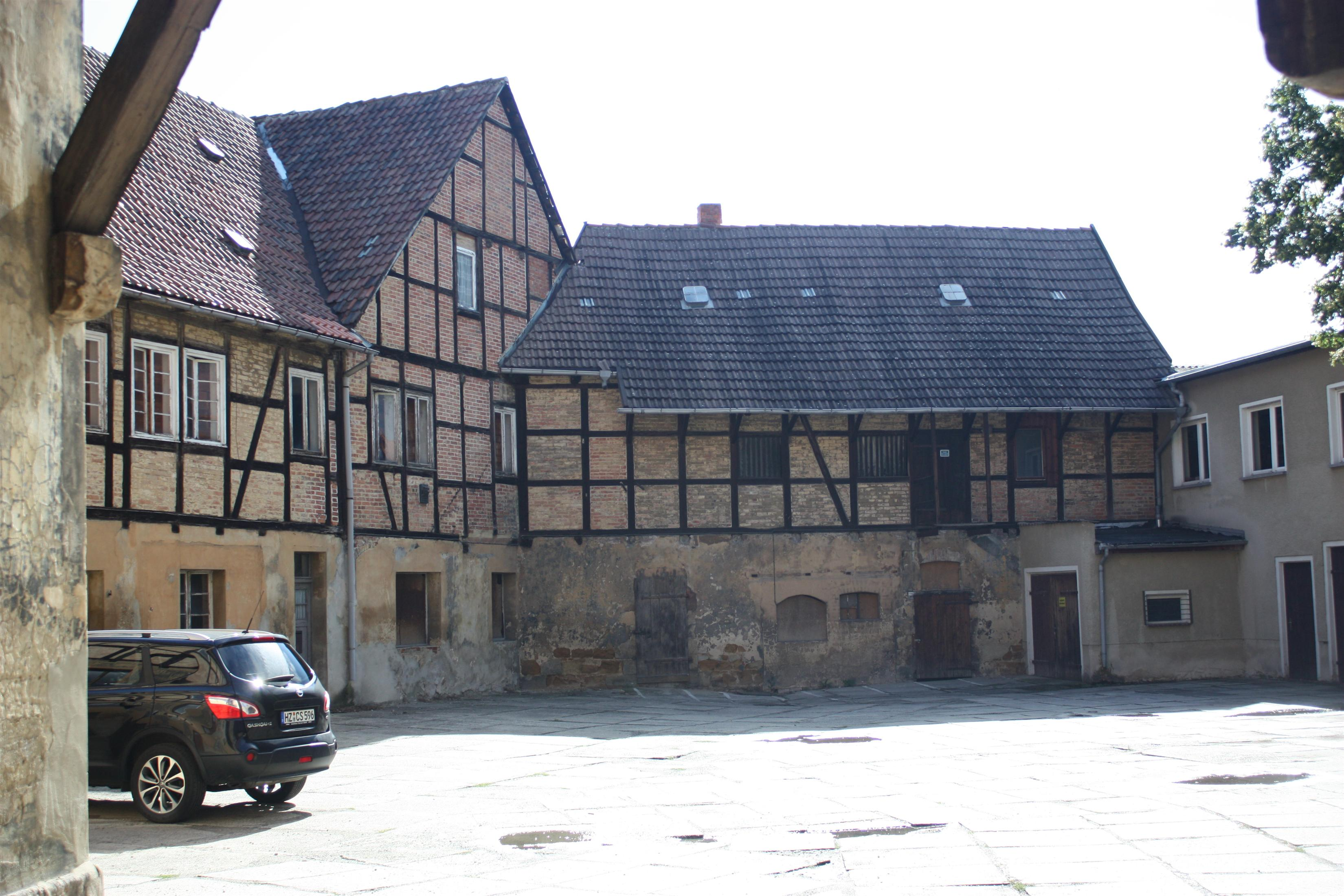 This is a photograph of an architectural monument.It is on the list of cultural monuments of Quedlinburg Quedlinburg Lange Gasse